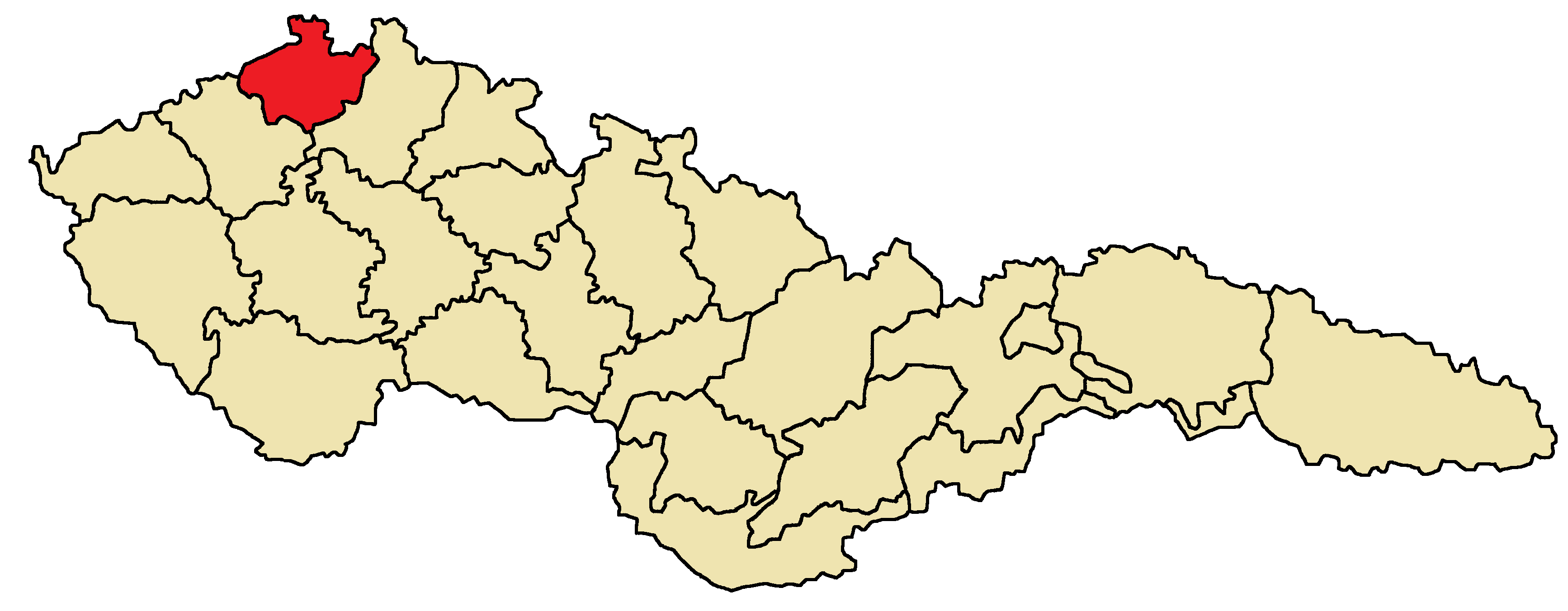 Electoral District used in 1925, 1929, 1935 elections for the Chamber of Deputies, Czechoslovakia